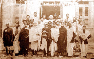 6th December 1908 foundation ceremony of Vangiya Sahitya Parishad